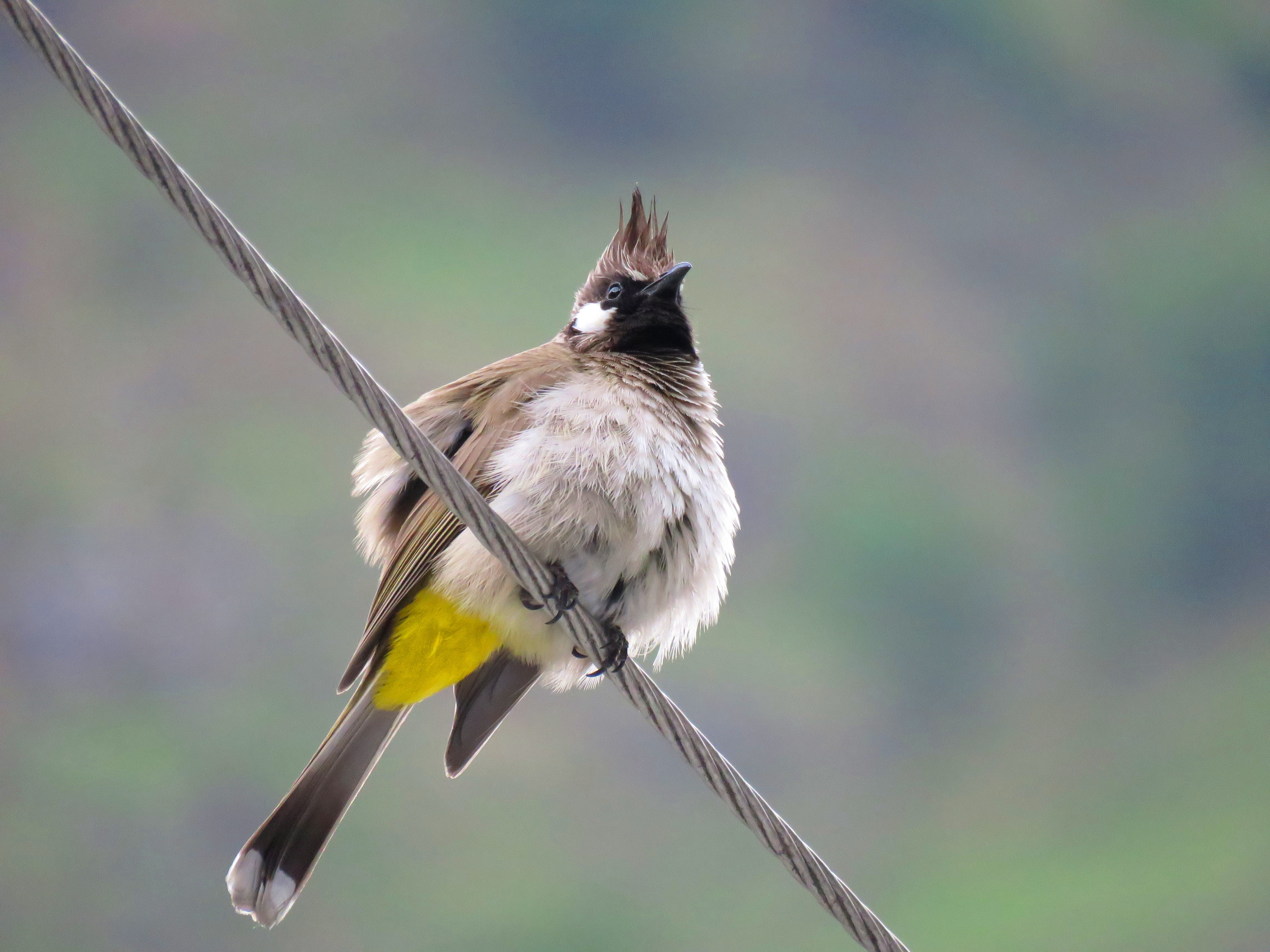 A Himlayan Bulbul perched on a power cable at Kasol, HP